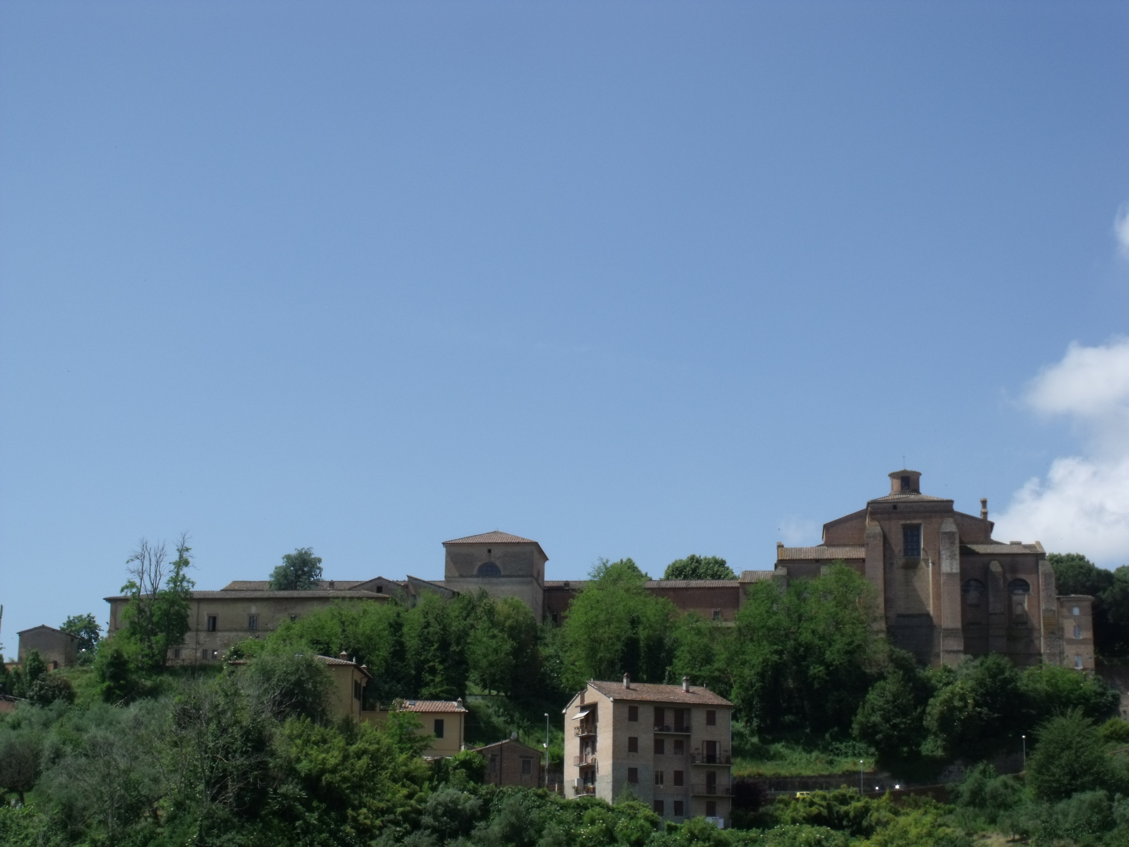 Church of Sant’Agostino in Siena, Tuscany, Italy